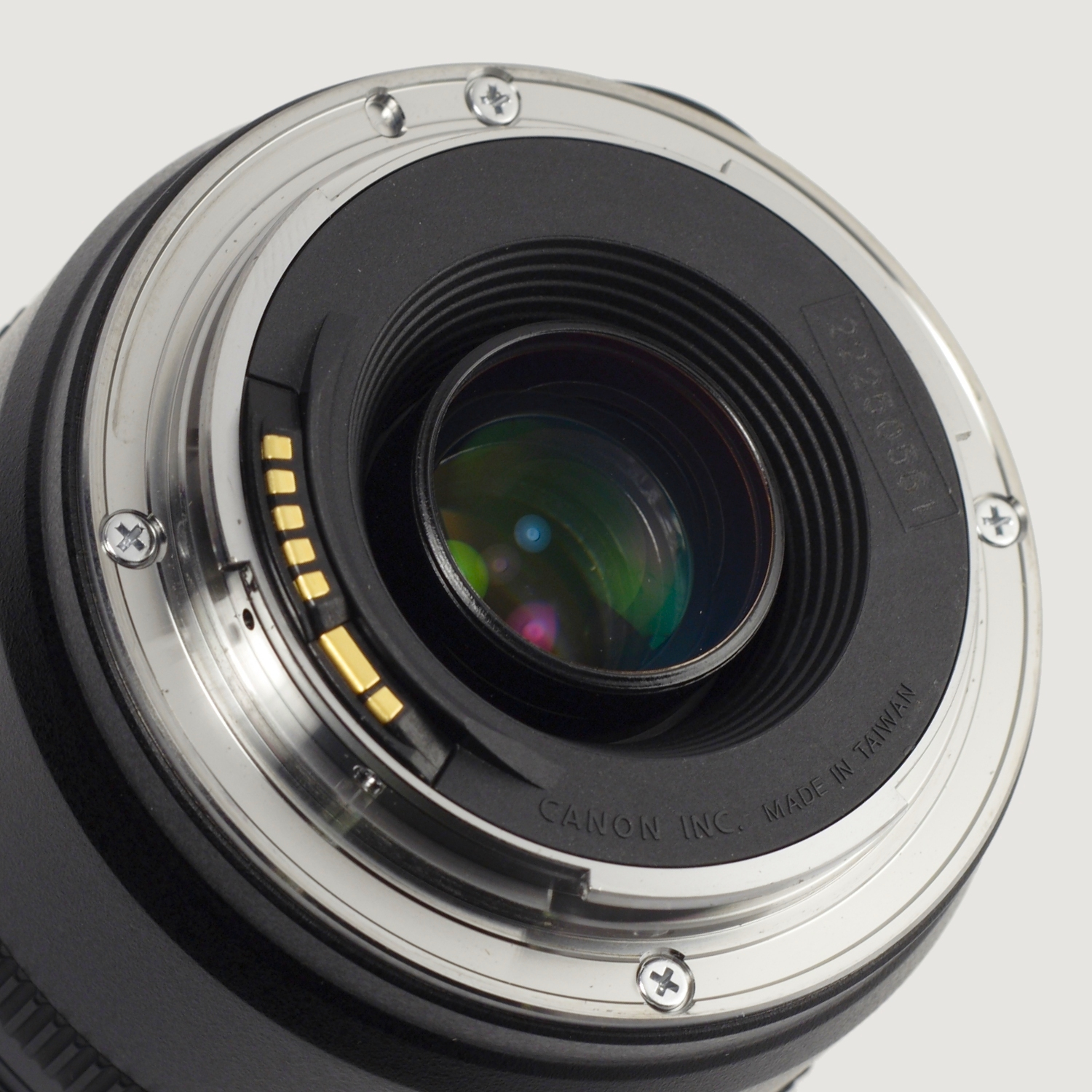 Photo of the mount used by Canon EF lenses. Lens that was used as subject, is the Canon EF 28-105mm f/3.5-4.5 USM II.